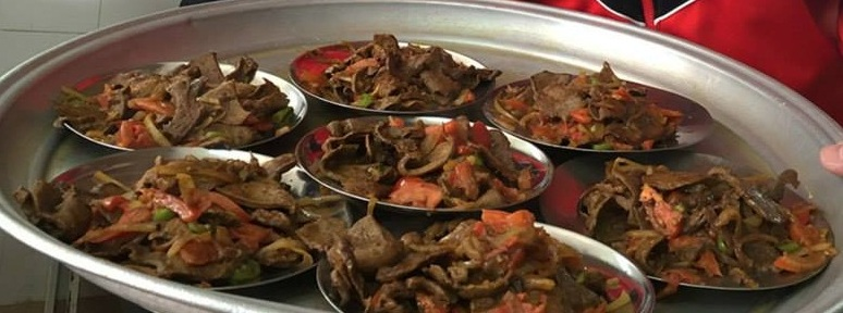 Jaghoor baghoor (lamb’s liver), a Persian dish